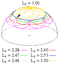 Curves of the apex of the top of a standing Lagrange-Top